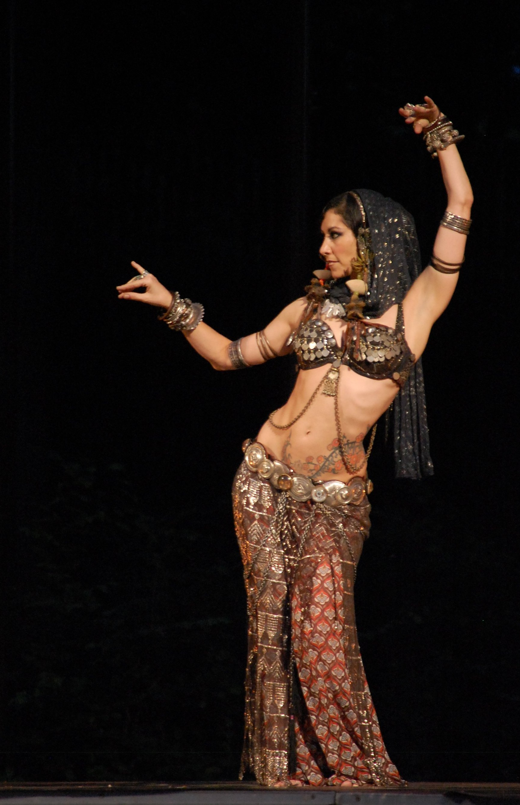 Rachel Brice, at the Tribal Umrah festival, Rennes August 2012